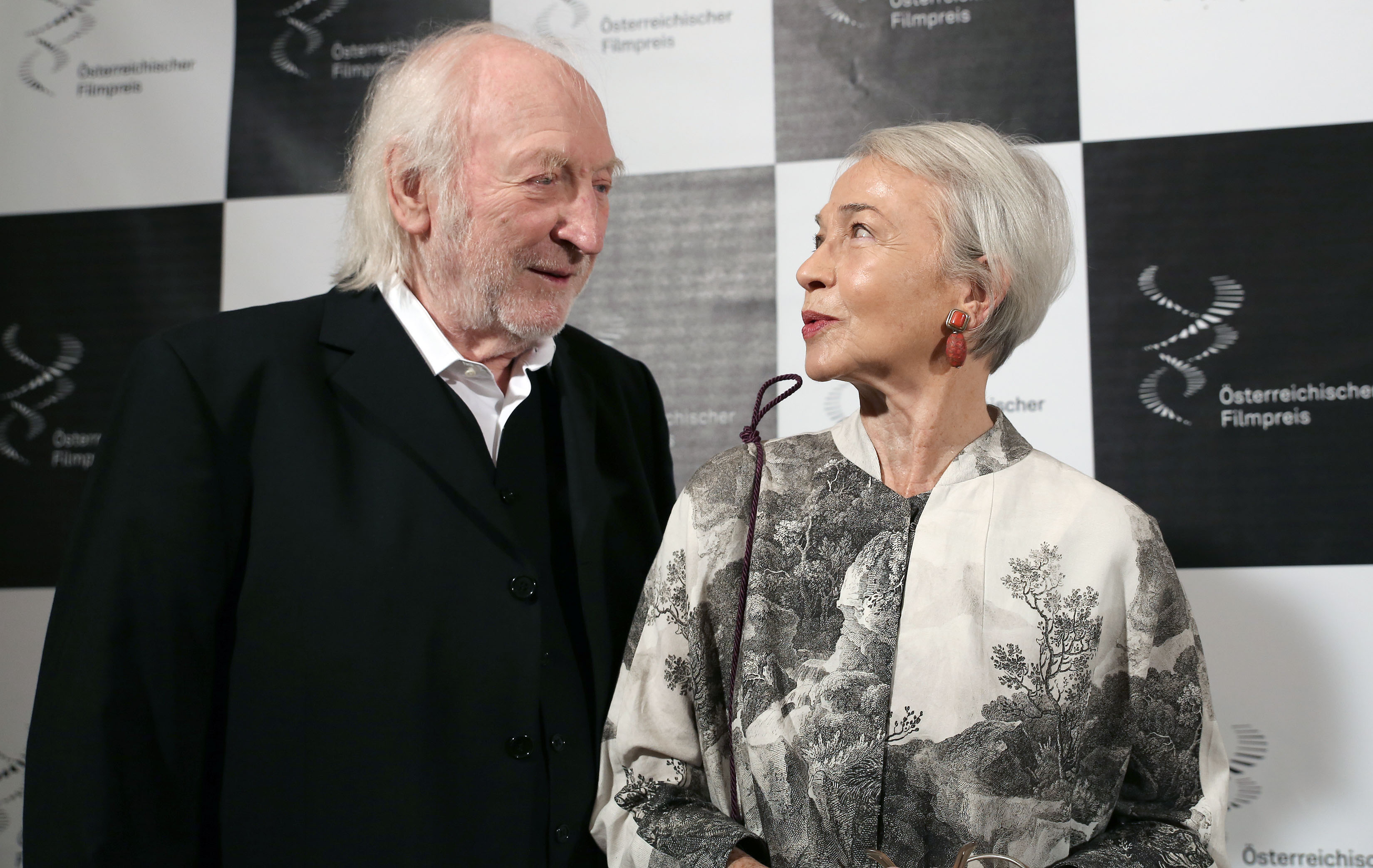 Christine Ostermayer and Karl Merkatz, Austrian Film Awards 2013 (Vienna).